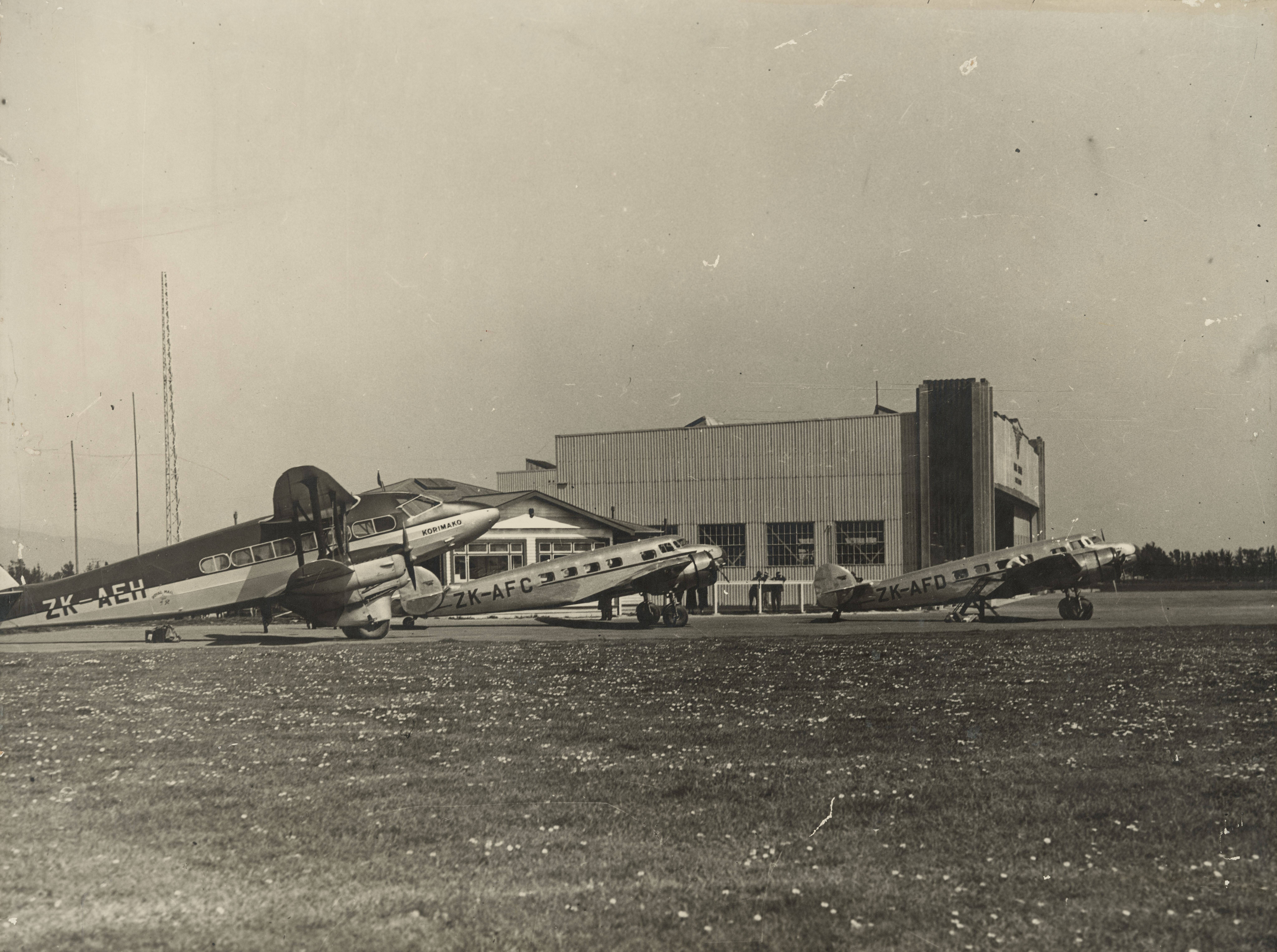 Union Airways aircraft, Milson 1938ZK-AEH, ZK-AFC, ZK-AFD of Union Airways, parked outside the airport terminal building. (ZK-AFC Kotare crashed at Mangere 10 May 1938 killing two NZ History)